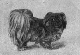 A Chinese Spaniel (now known as a Pekingese), photographed in 1903.